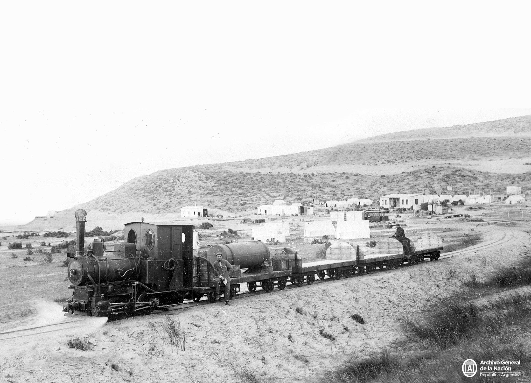 Train hauled by a Krauss 0-4-0T locomotive, leaving Puerto Pirámides.